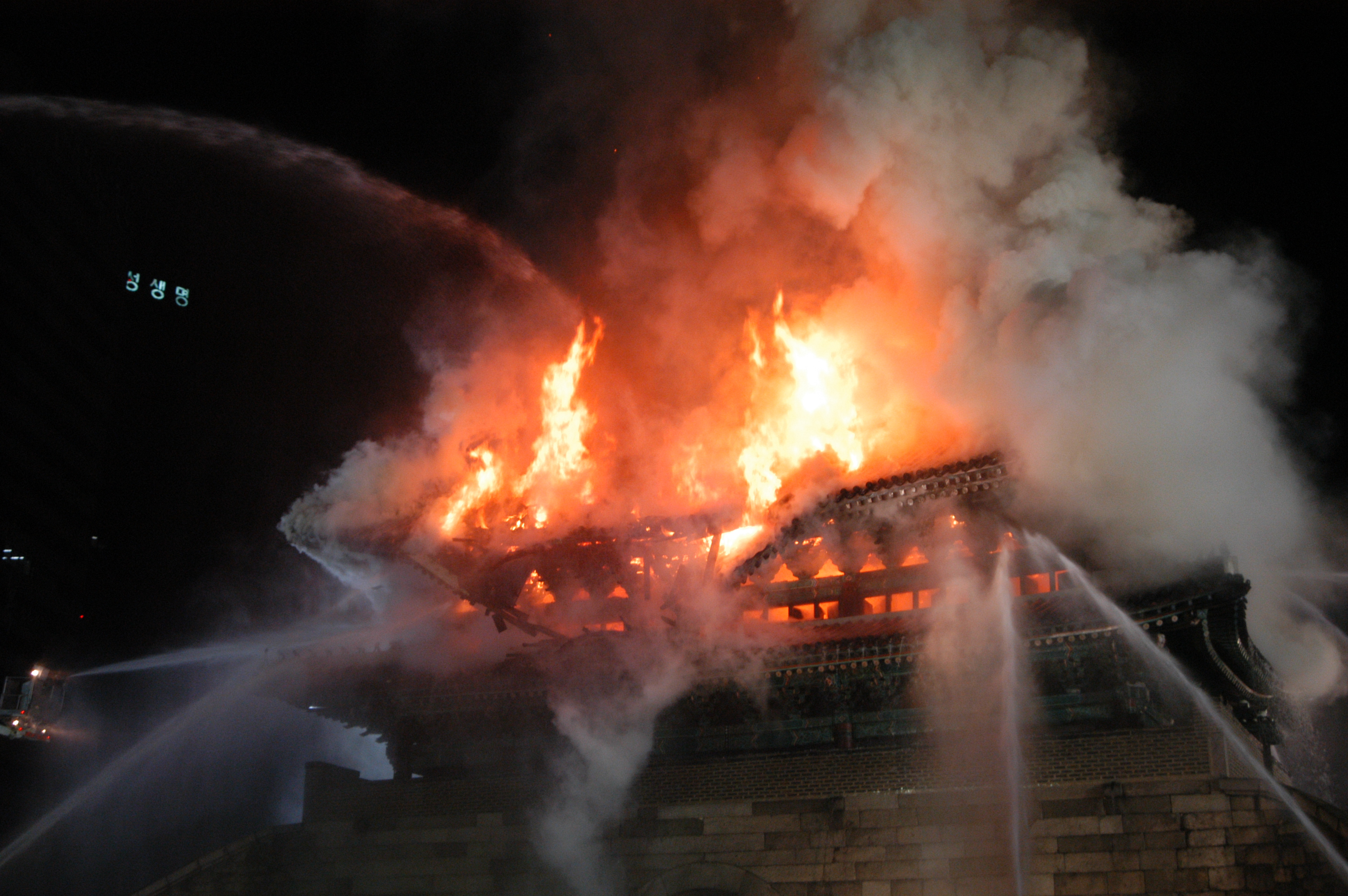 남대문 화재 현장 소방 활동 사진